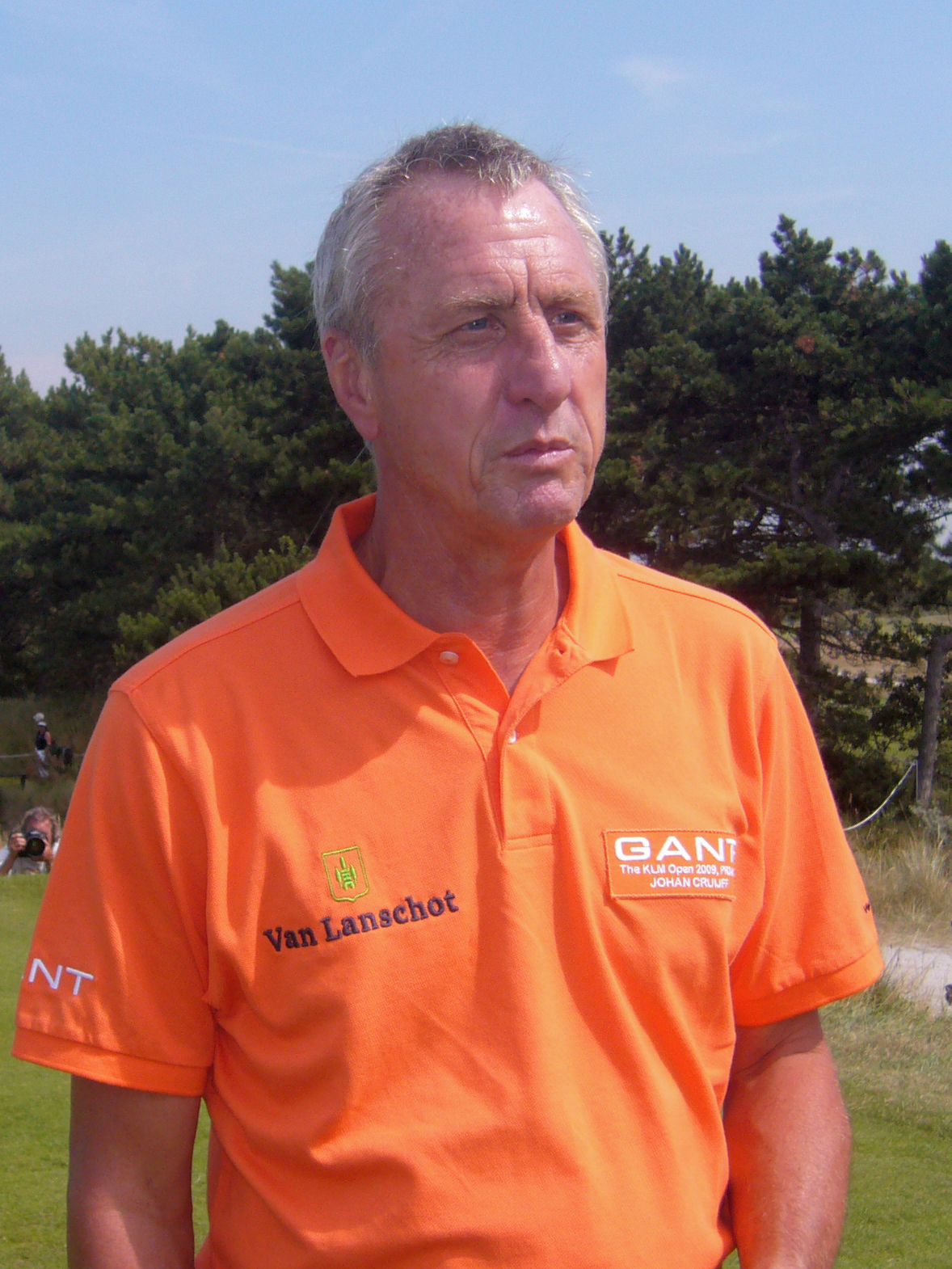 Johan Cruijff, here as golfer during Pro-Am of the KLM Open 2009